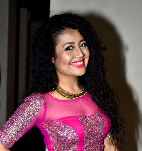 Neha Kakkar at Filmcity